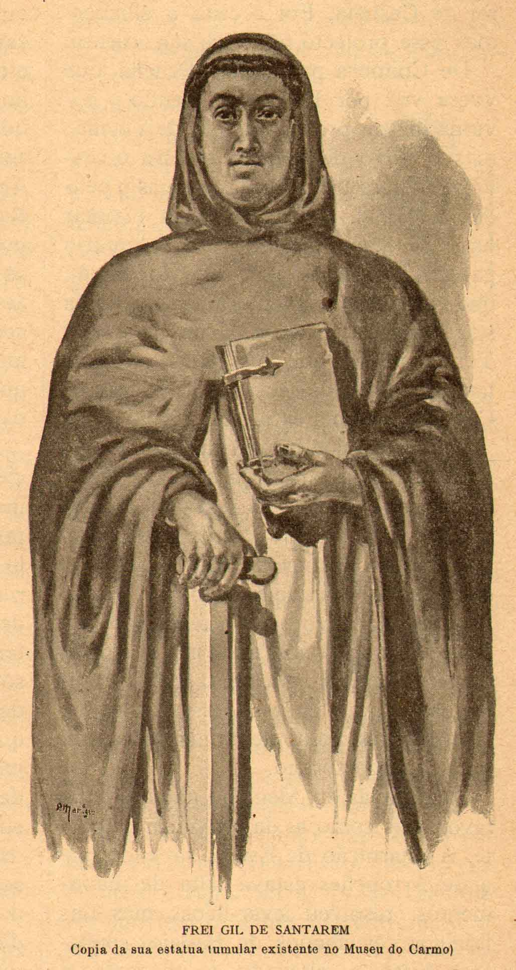 Illustration by Alfredo Roque Gameiro in the book História de Portugal, popular e ilustrada, by Manuel Pinheiro Chagas